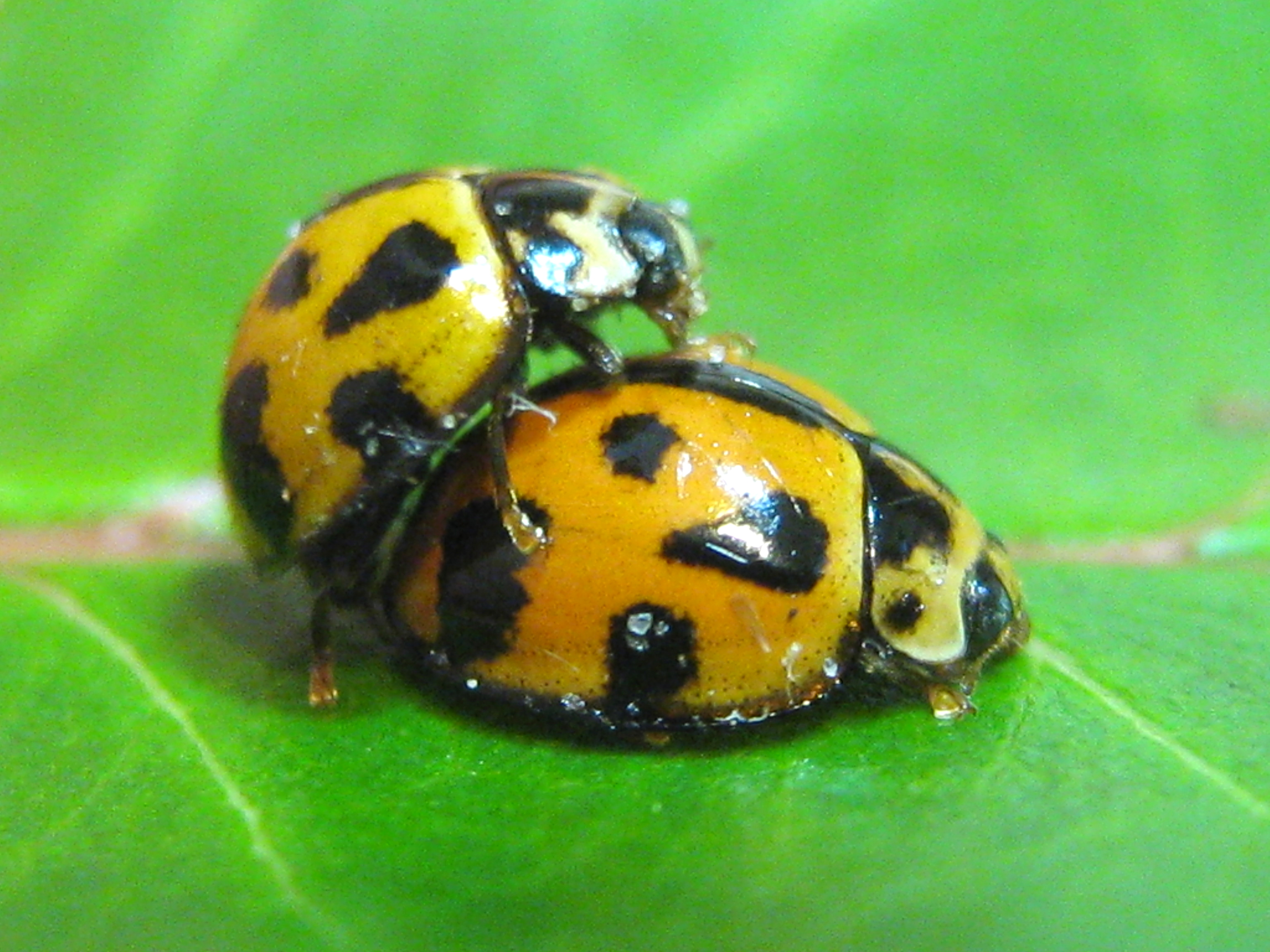 A mating pair of variable ladybirds on a rose leaf.